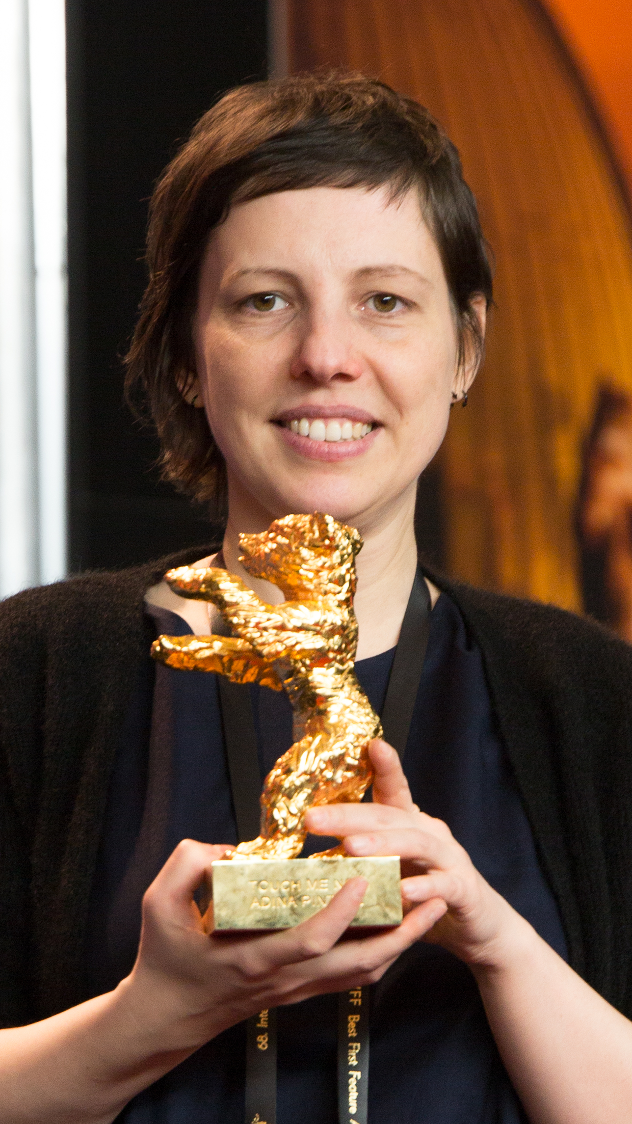 Director Adina Pintilie with the Golden Bear for Touch Me Not on the Berlinale 2018